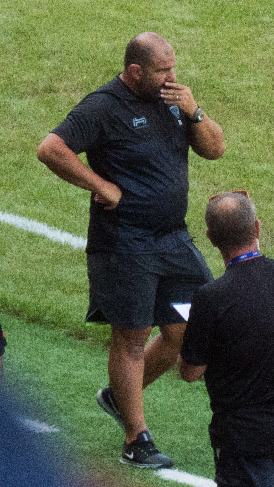 2018–19 Top 14 season — 1 September 2018, Stade du Hameau. Match between: Section Paloise — RC Toulonnais